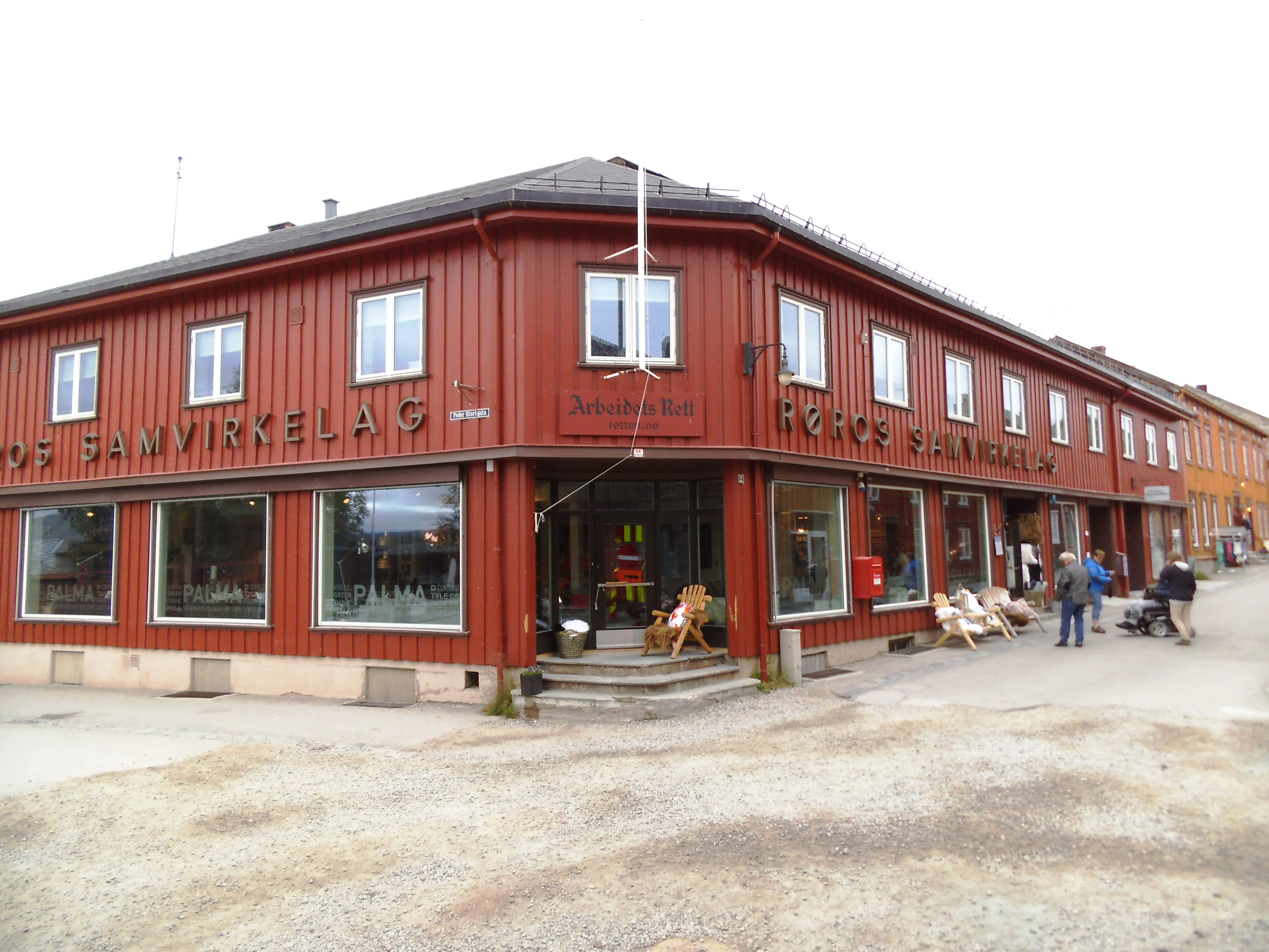 A building in Røros, Norway. The newspaper "Arbeidets rett" is located there.